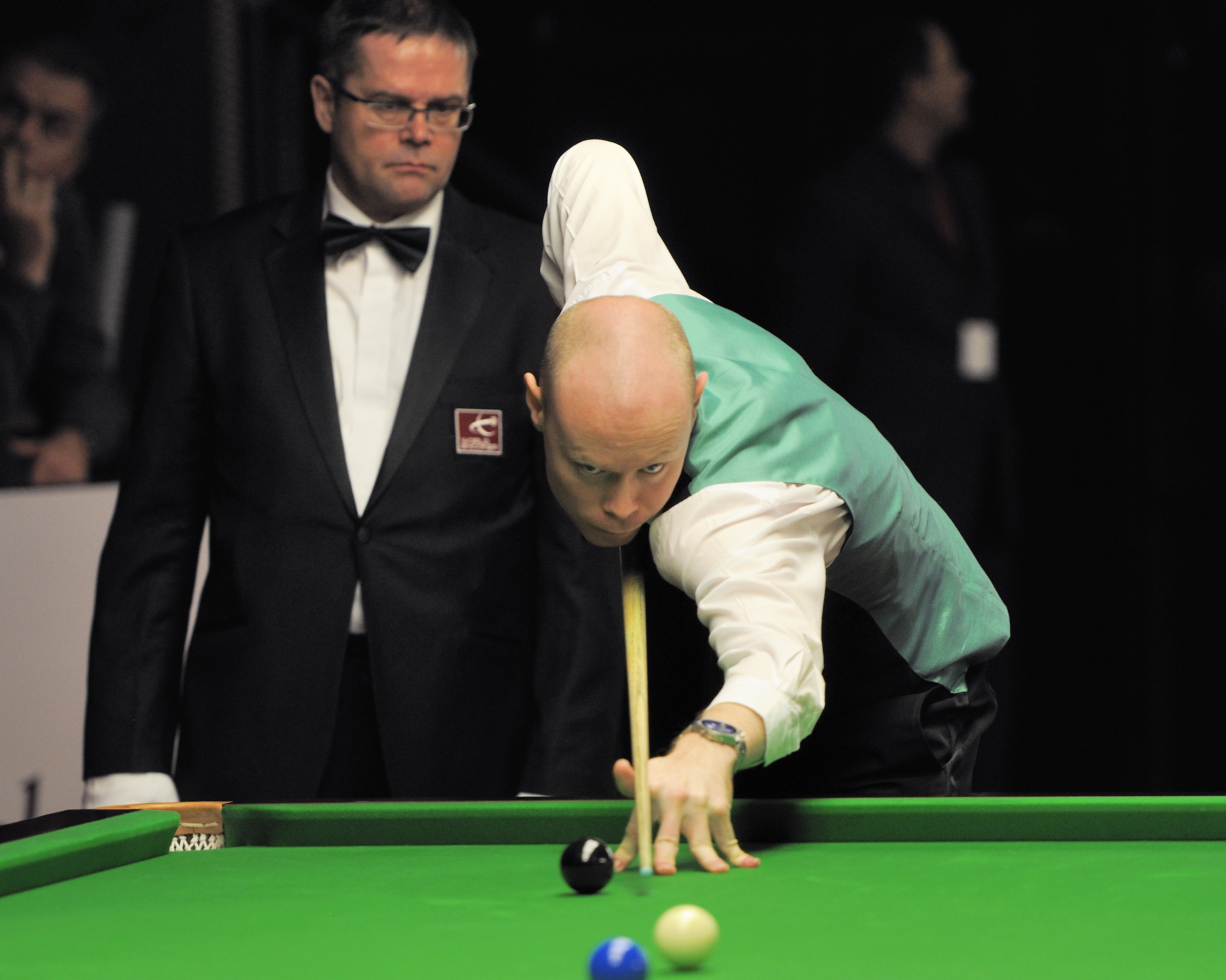 Picture taken in Berlin during the Snooker German Masters in 2014. Gary Wilson and Ingo Schmidt.